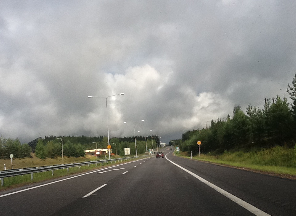 Finnish national road 6 in Imatra.